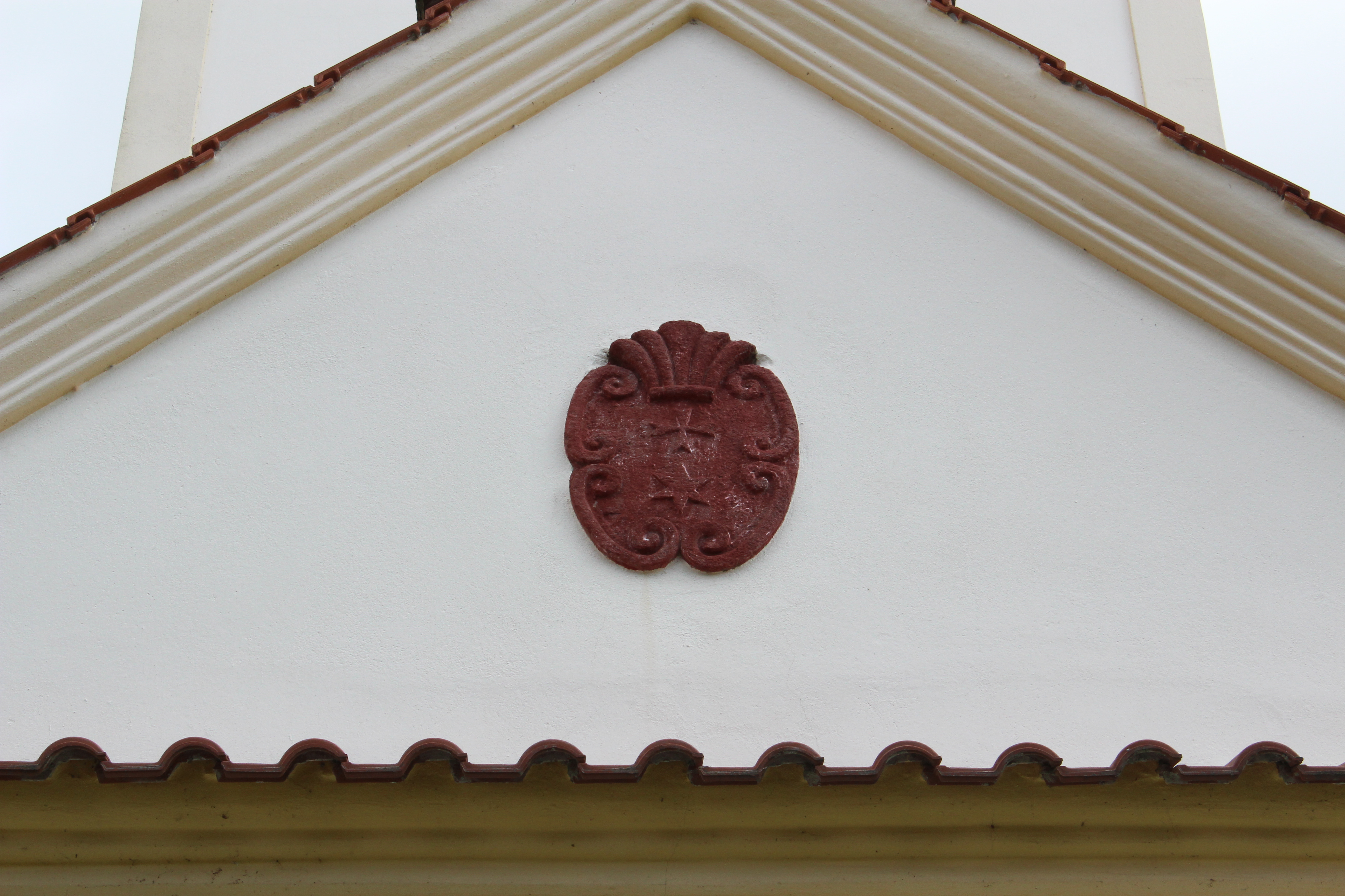 Church of Saint James the Greater (Popovice).Coats of arms of the Knights of the Cross with the Red Star